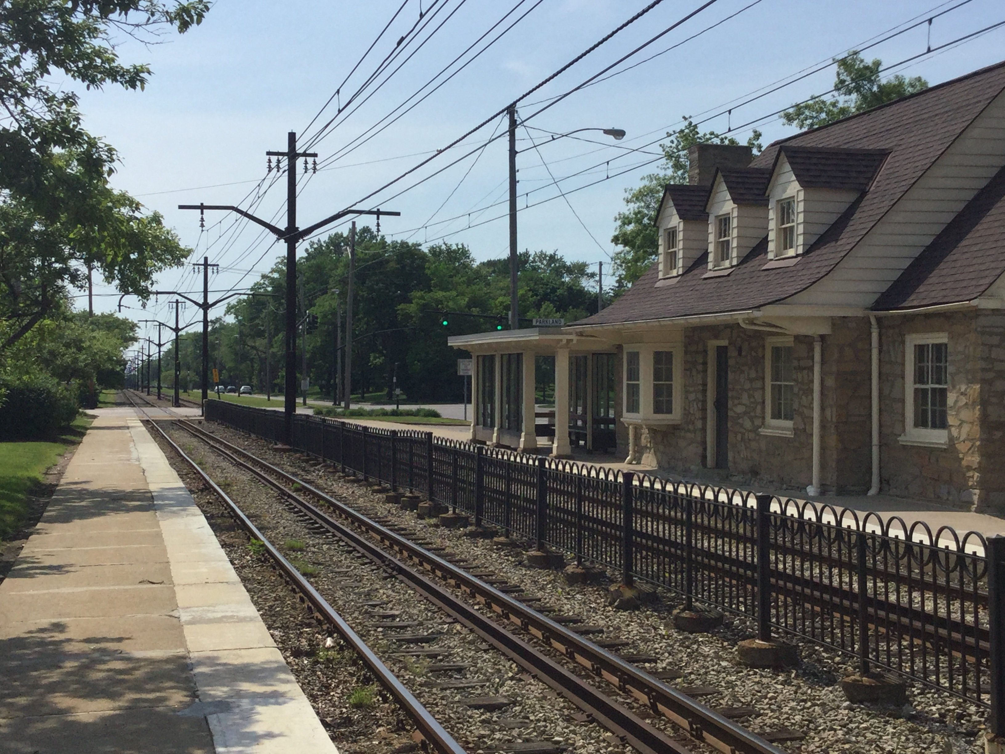 RTA station